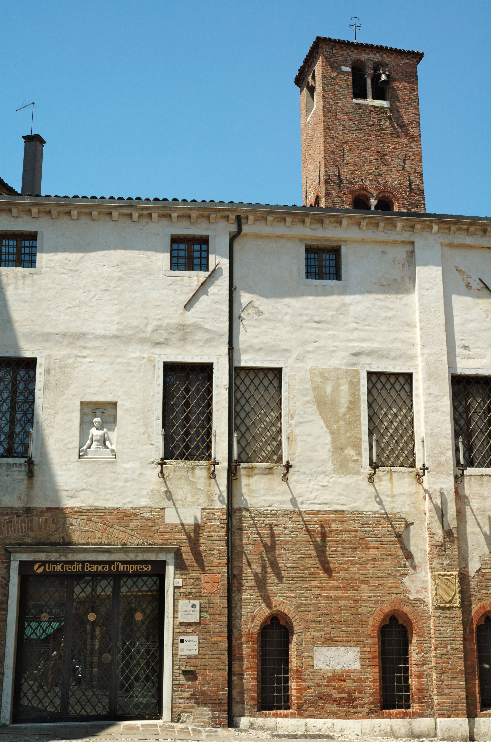 Former pawnbroker (Monti di Pietà), Treviso, now occupied by Banca Unicredit. The square is Piazza Monti di Pietà. The tower in the background is Chiesa di San Vito.